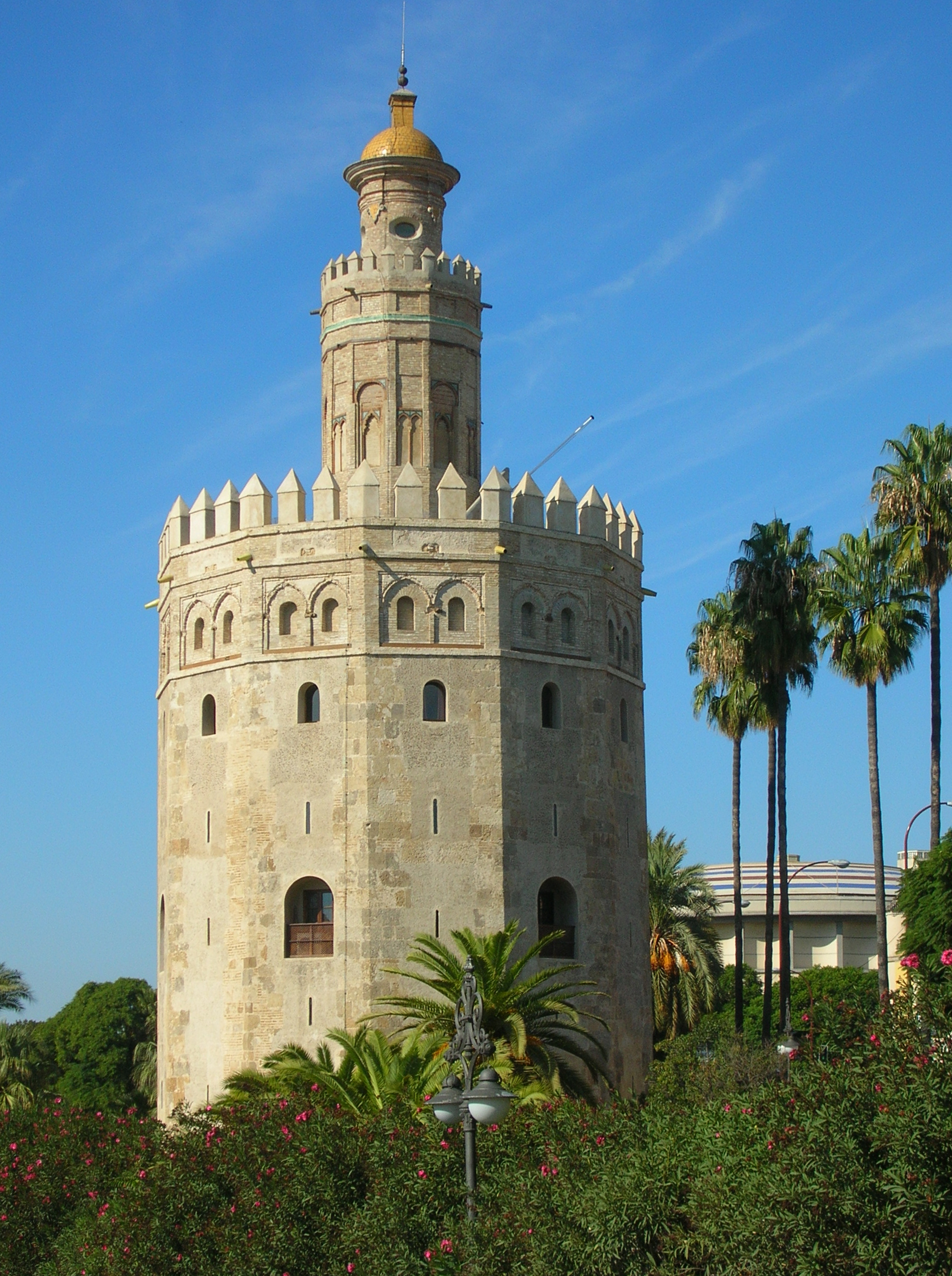 Torre del Oro (Gold Tower), Sevilla, Spain